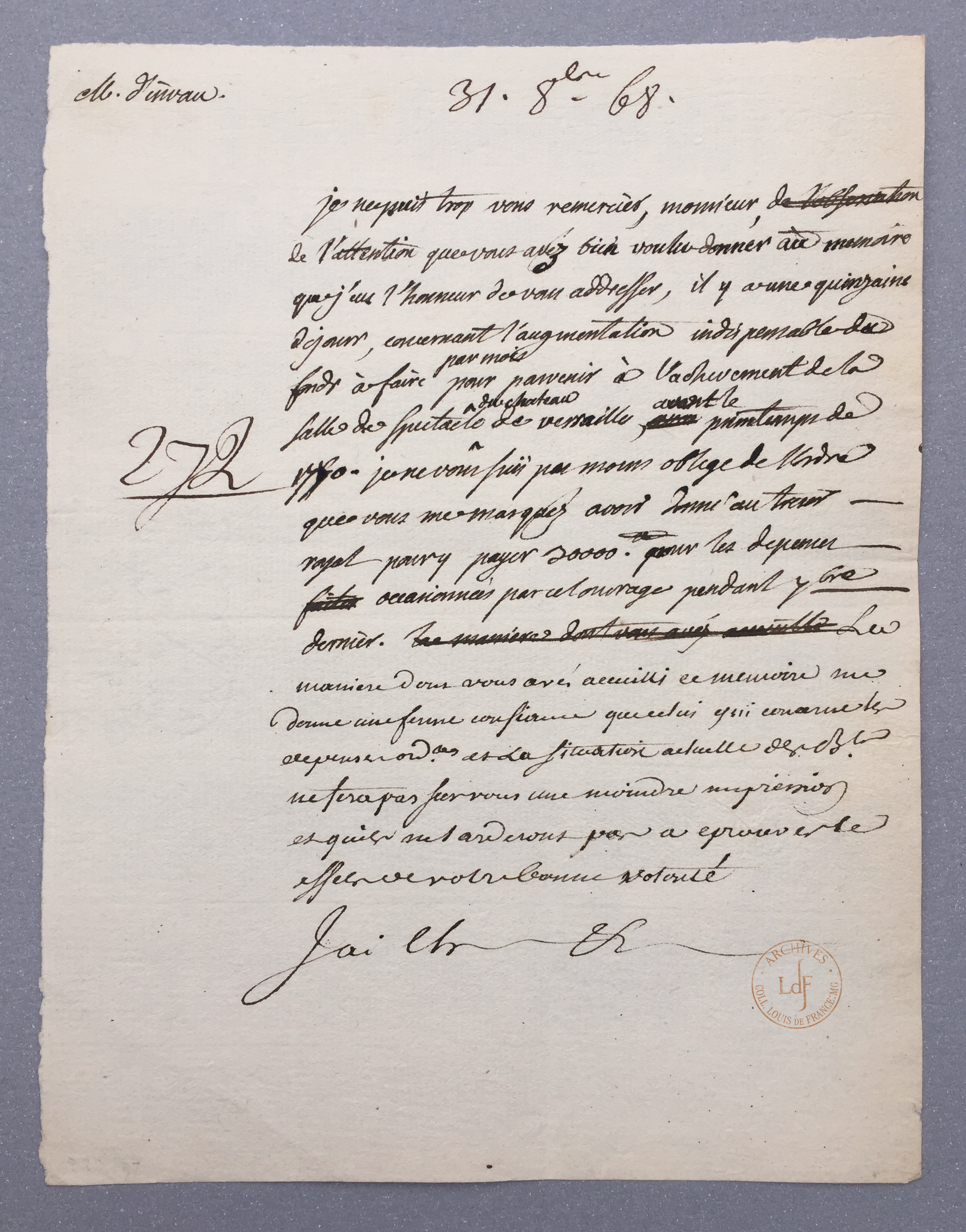 LdF ms BR-0103: Abel-François Poisson de Vandières, marquis de Marigny (1727-1781), Draft letter written by Abel-François Poisson de Vandières, Marquis de Marigny (1727-1781), directeur général des bâtiments and brother of Madame de Pompadour, mistress of Louis XV. The Marquis is asking Etienne Maynon d’Invault (1721-1801), contrôleur des finances, for a budget increase to complete the works on the #Royal Opera of the Château de Versailles until spring 1770 [«parvenir à l’achèvement de la salle de spectacle du Château de Versailles, avant le printemps de 1770»]. On may 16, 1770 the future Louis XVI married MarieAntoinette and the festivities also took place at the new Royal Opera of Versailles. _______________ Title: Collection Louis de France, Manuscripts, LdF ms BR-0103: Marigny, Abel-François Poisson de Vandières, marquis de, Augmentation des fonds pour «parvenir à l’achèvement de la salle de spectacle du château de Versailles, avant le printemps de 1770»; Year/date: October 31, 1768; Dimensions: ca. 159 x 206 mm; Pages: 1p/ vergé; Location: Dortmund/ Germany, Collection Louis de France